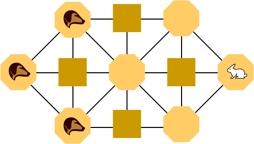 Starting positions of the board game Hare and Hounds. Created by Canley for the article.